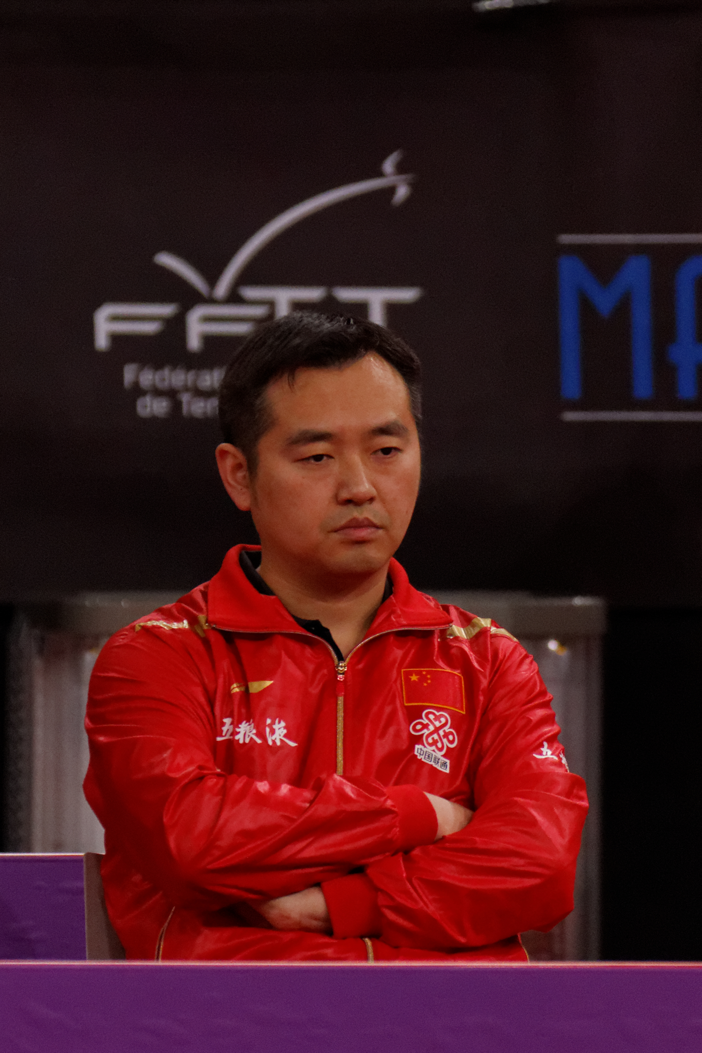 2013 World Table Tennis Championships, Paris. Women's Singles Quarterfinal. Melek Hu vs Liu Shiwen.